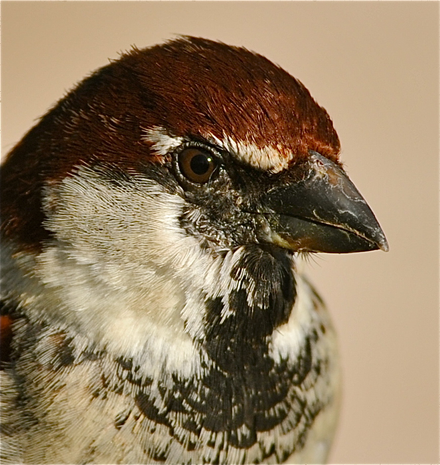 Male Italian Sparrow